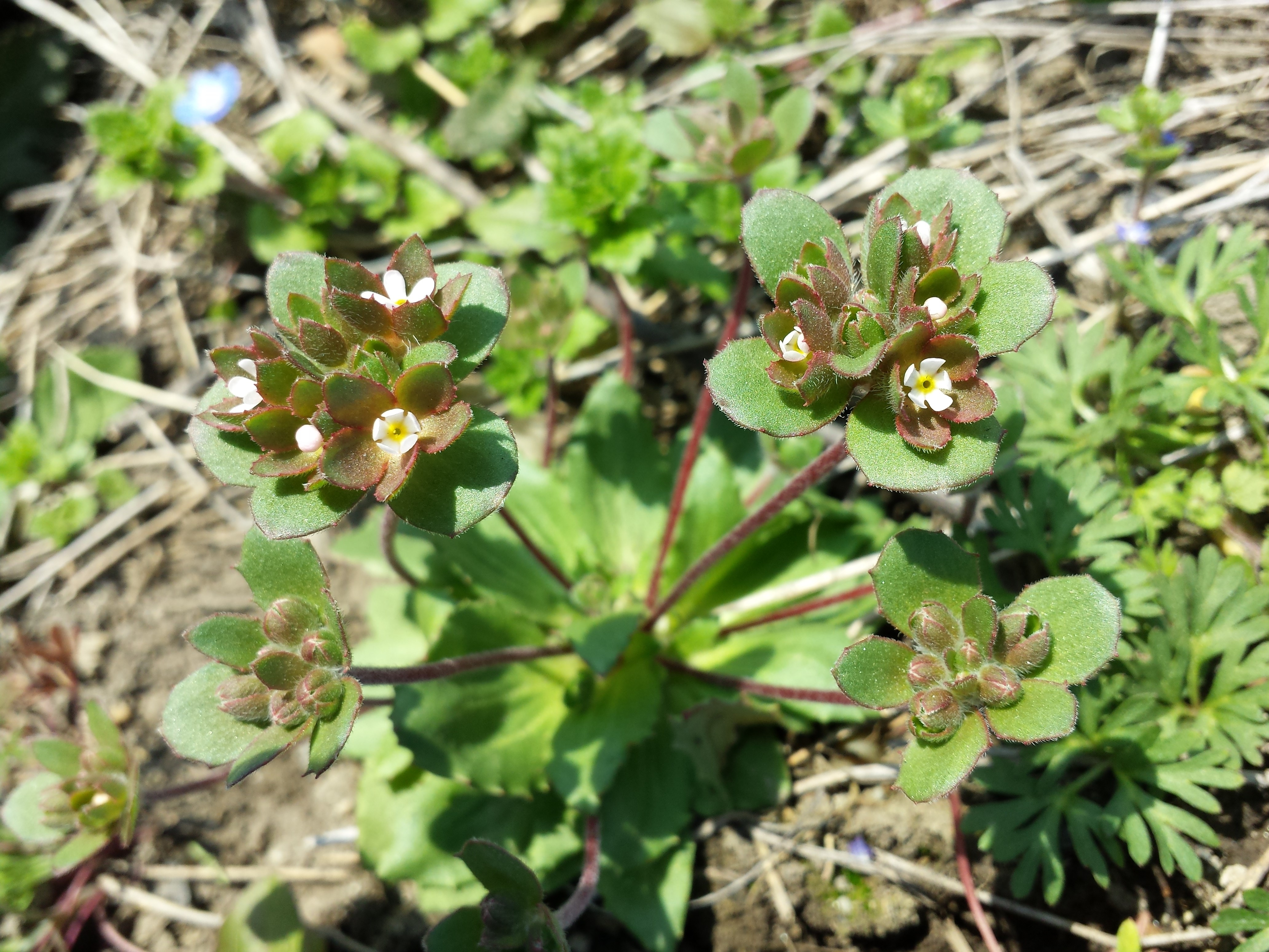 Habitus Taxonym: Androsace maxima ss Fischer et al. EfÖLS 2008 ISBN 978-3-85474-187-9 Location: Sinawastingasse, Vienna-Floridsdorf - ca. 160 m a.s.l. Habitat: slope